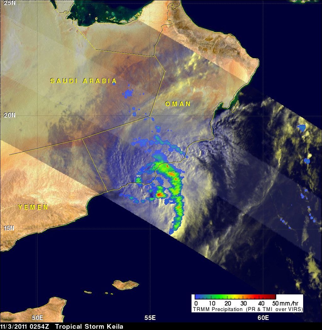 This radar image of Tropical Storm Keila's rainfall was captured by the TRMM satellite on Nov. 3, 2011 at 0254 UTC (10:54 p.m. EDT, Nov. 2). Red areas indicate heavy rainfall spiraling into Keila's center. Light to moderate rainfall (green and blue) around much of the storm was falling at a rate between .78 to 1.57 inches/20 to 40 mm per hour).